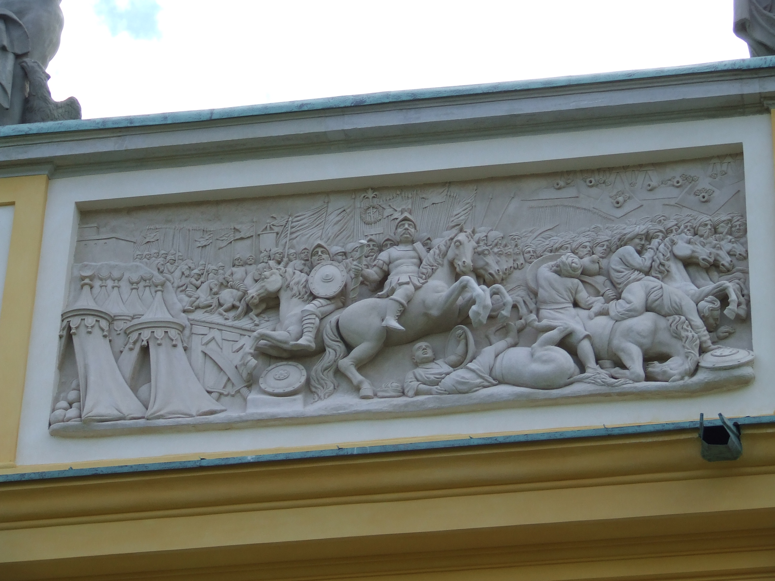 Battle of Chocim in 1673, relief on elevation of Wilanów pallace in Warsaw